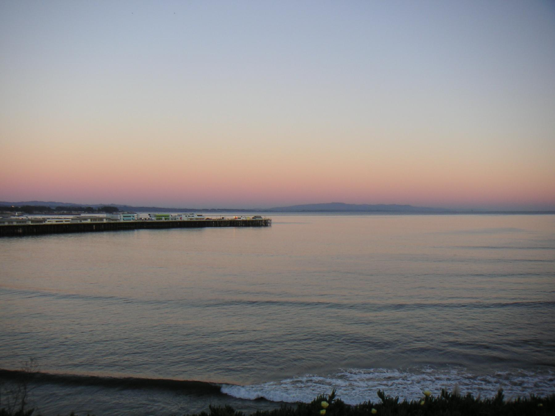 Santa Cruz: Sunset on the wharf. Santa Cruz, CA.